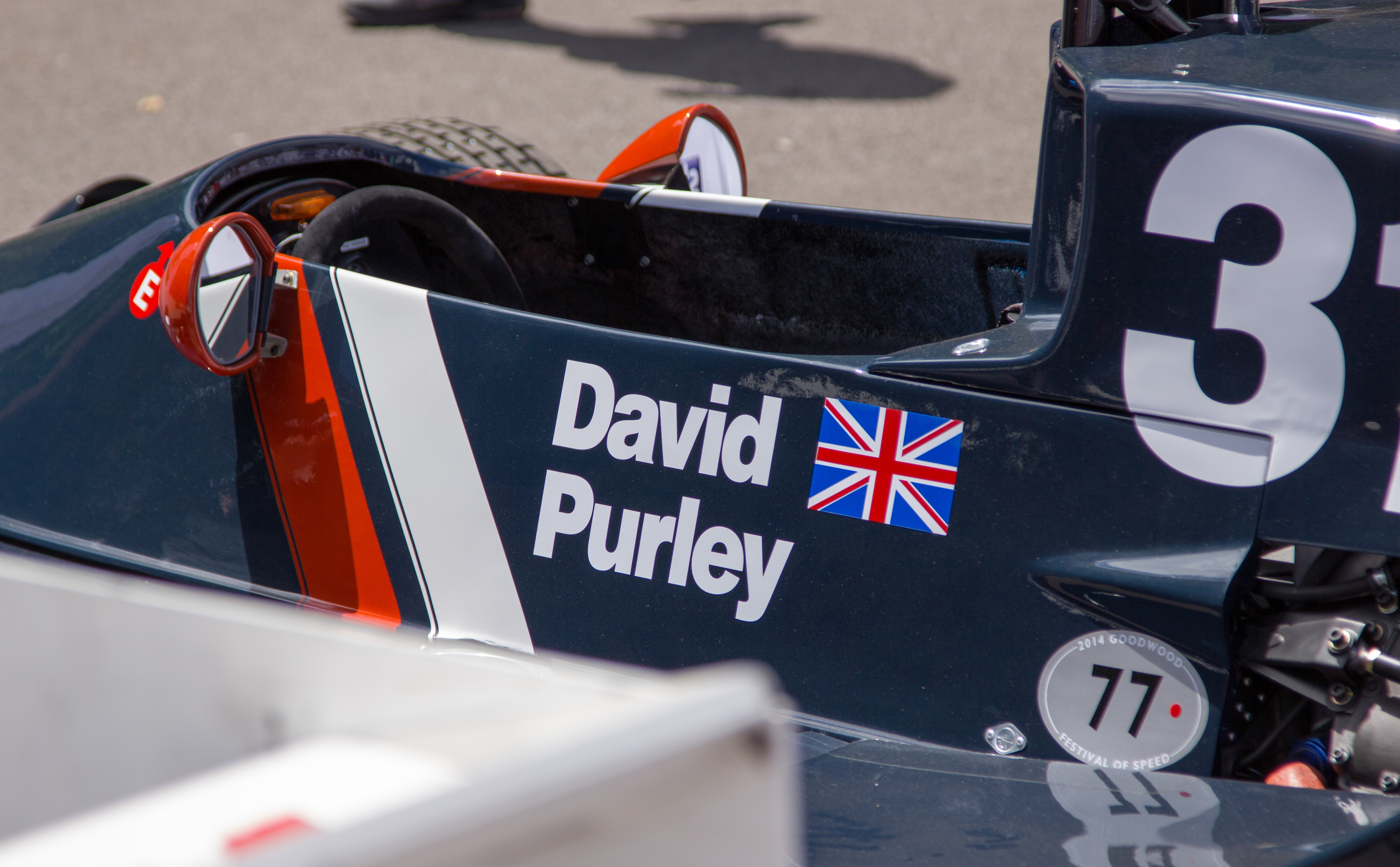 The LEC Cosworth CRP1 F1 car at the 2014 Goodwood Festival of Speed.